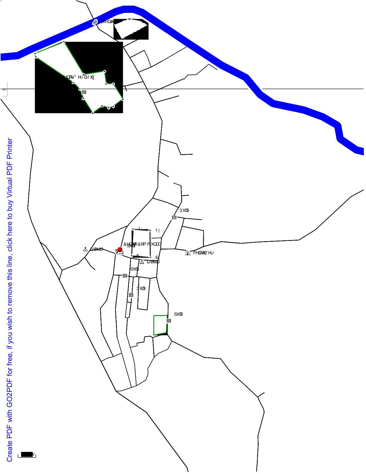 This is a map of Armenia Bonito.